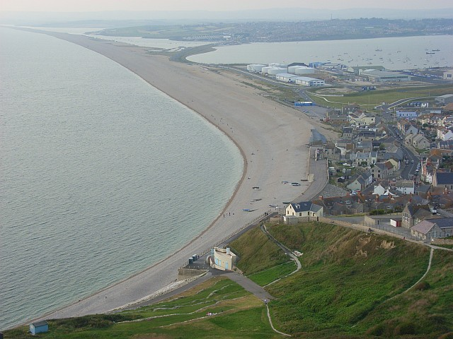 Chesil Cove Chesil Beach stretches out into the distance, seen here from the northern end of Portland's West Cliff.